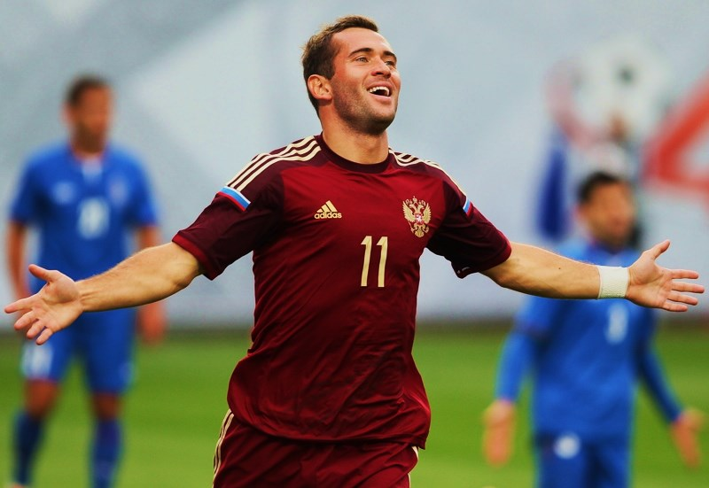 Aleksandr Kerzhakov